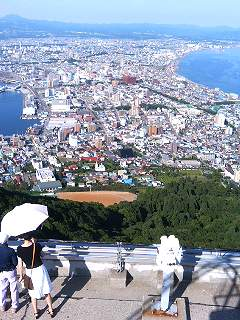 函館 City of HAKODATE